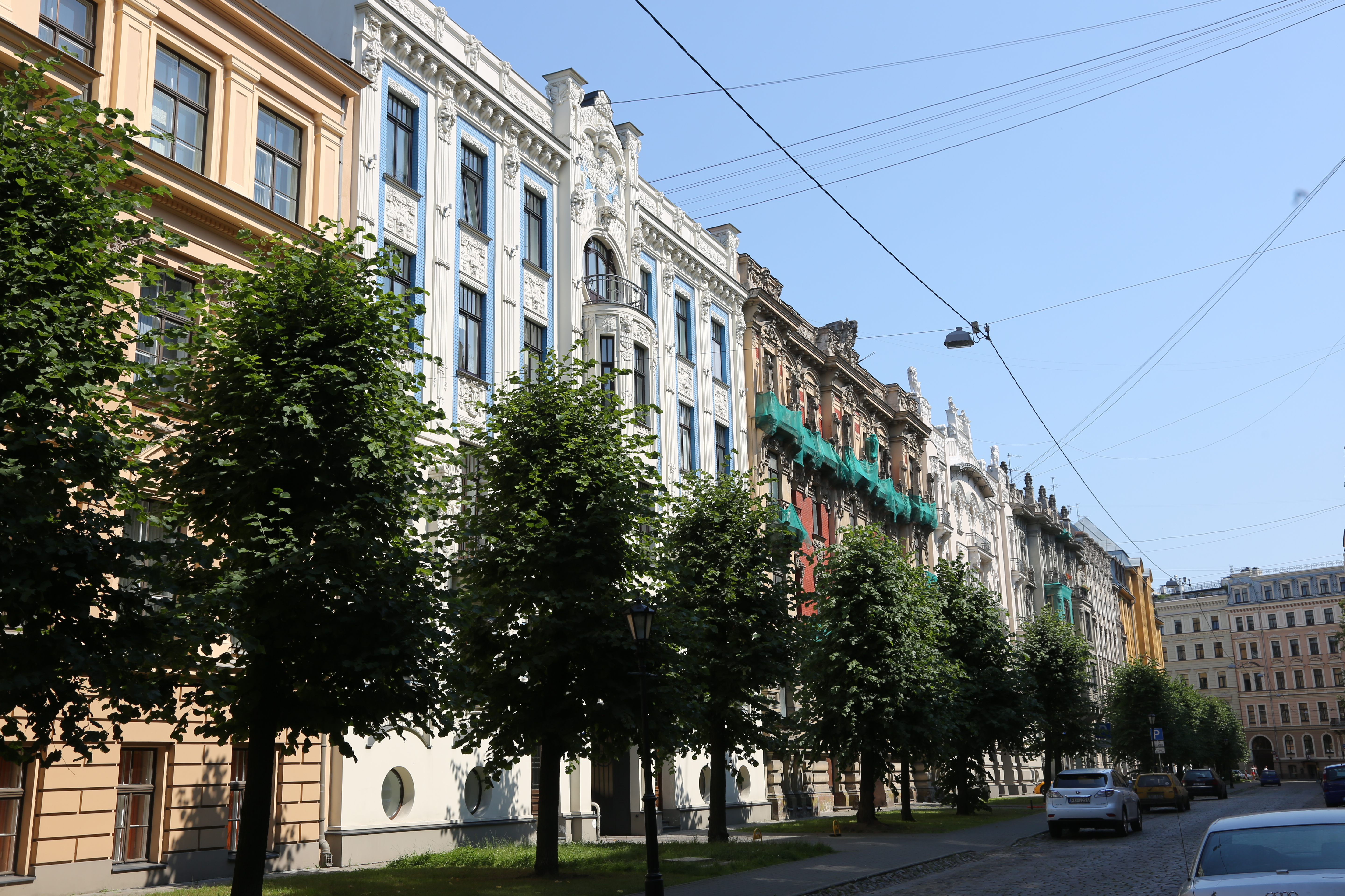 Alberta iela with the buildings at nr. 8, 6, 4, 2a and 2. Art Nouveau buildings in Rīga